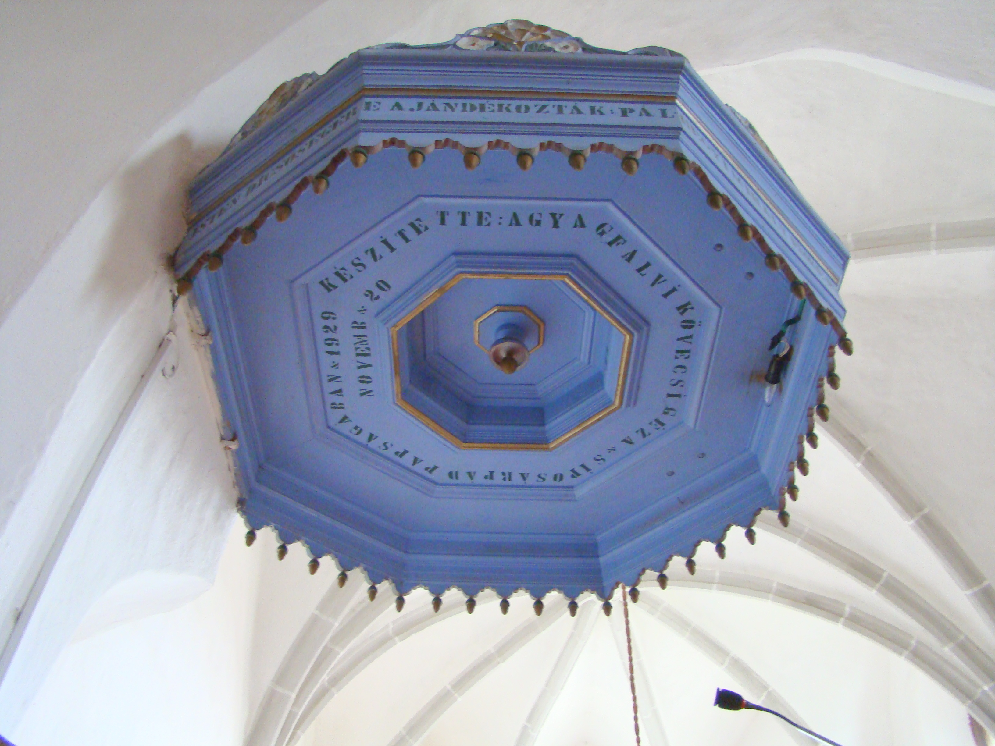 Reformed church in Albești, Mureș county, Romania